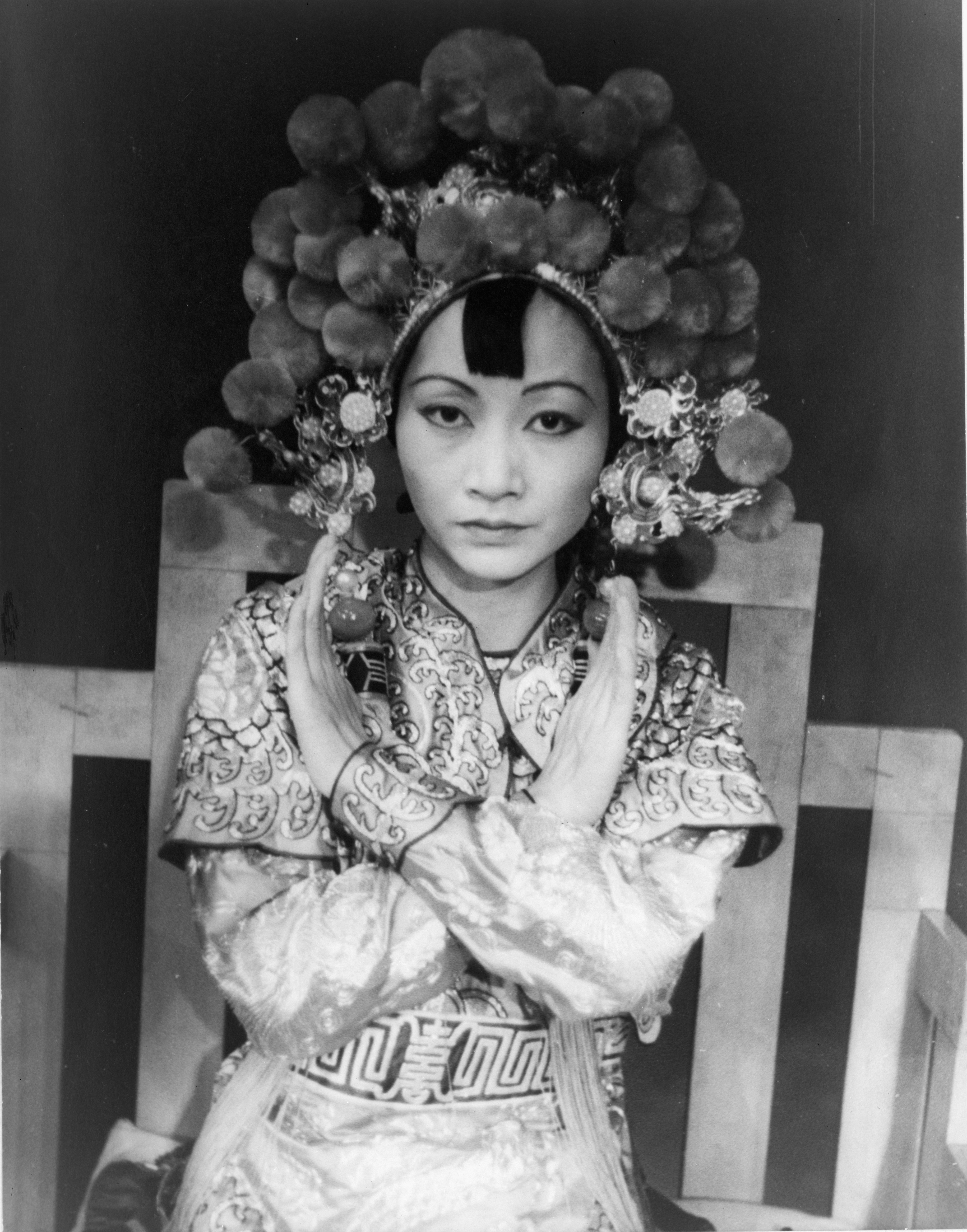 Portrait of United States actress Anna May Wong, "Turandot" at Westport.